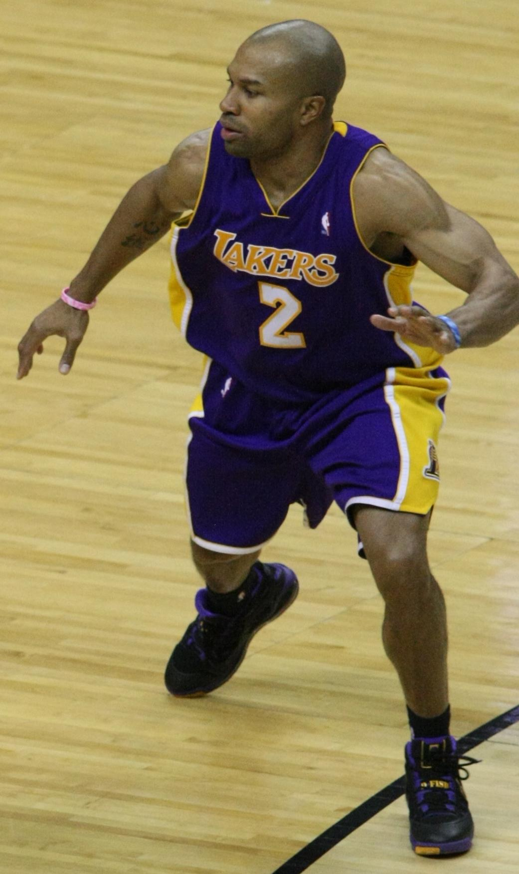 A photo of Derek Fisher modified by SRE.K.A.L.24.